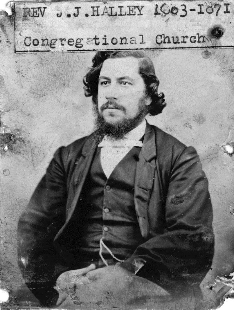 Black and white photograph of Rev. J. J. Halley taken in Ballarat, 1871